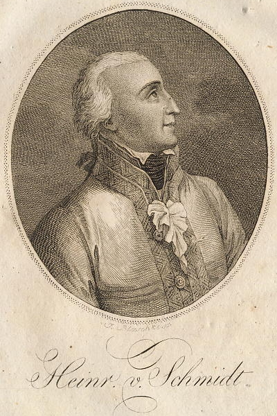 Portret von Feldmarschall-Leutnant von Schmitt.